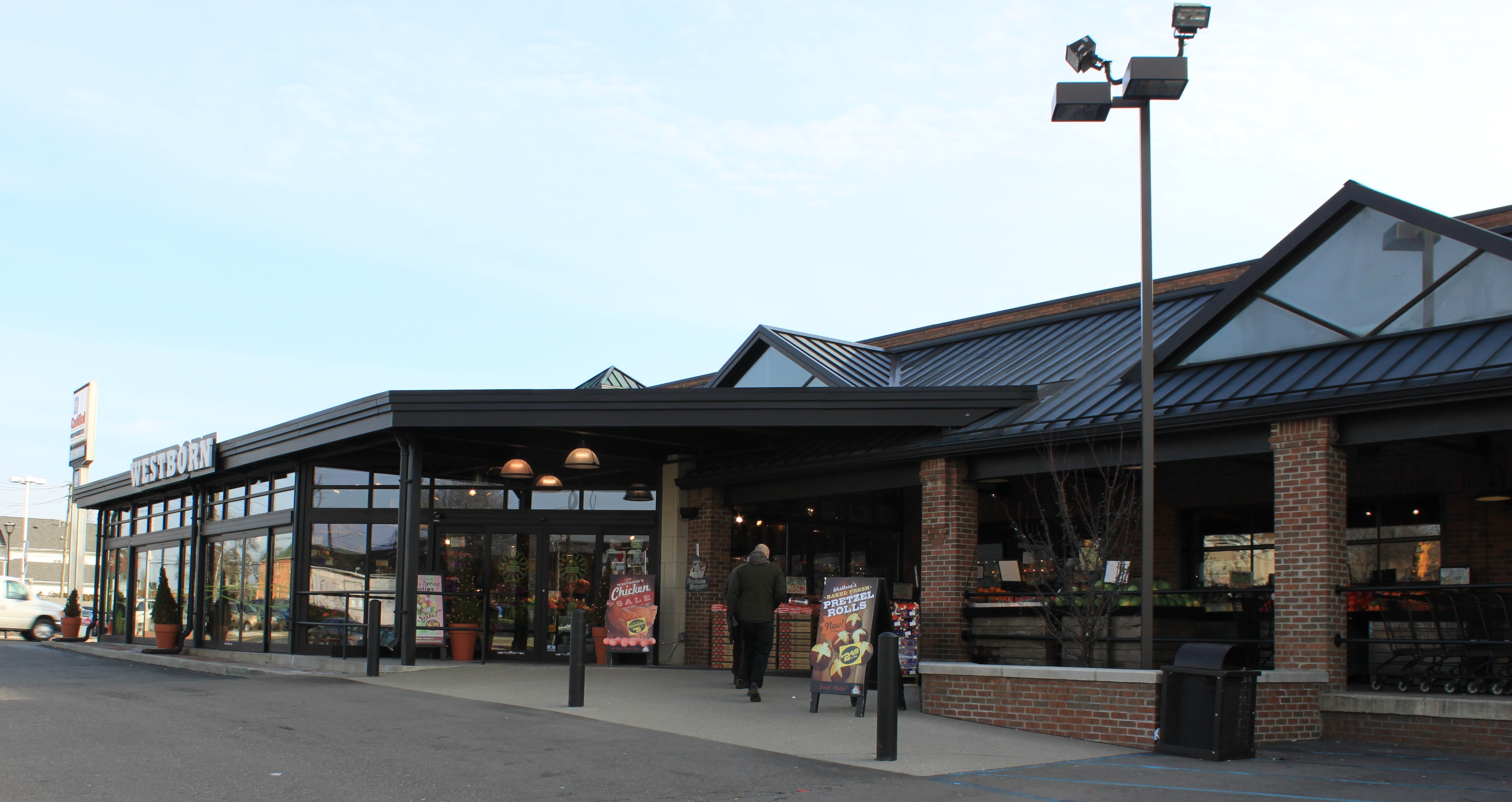 Westborn Market, 21755 Michigan Avenue, Dearborn, Michigan